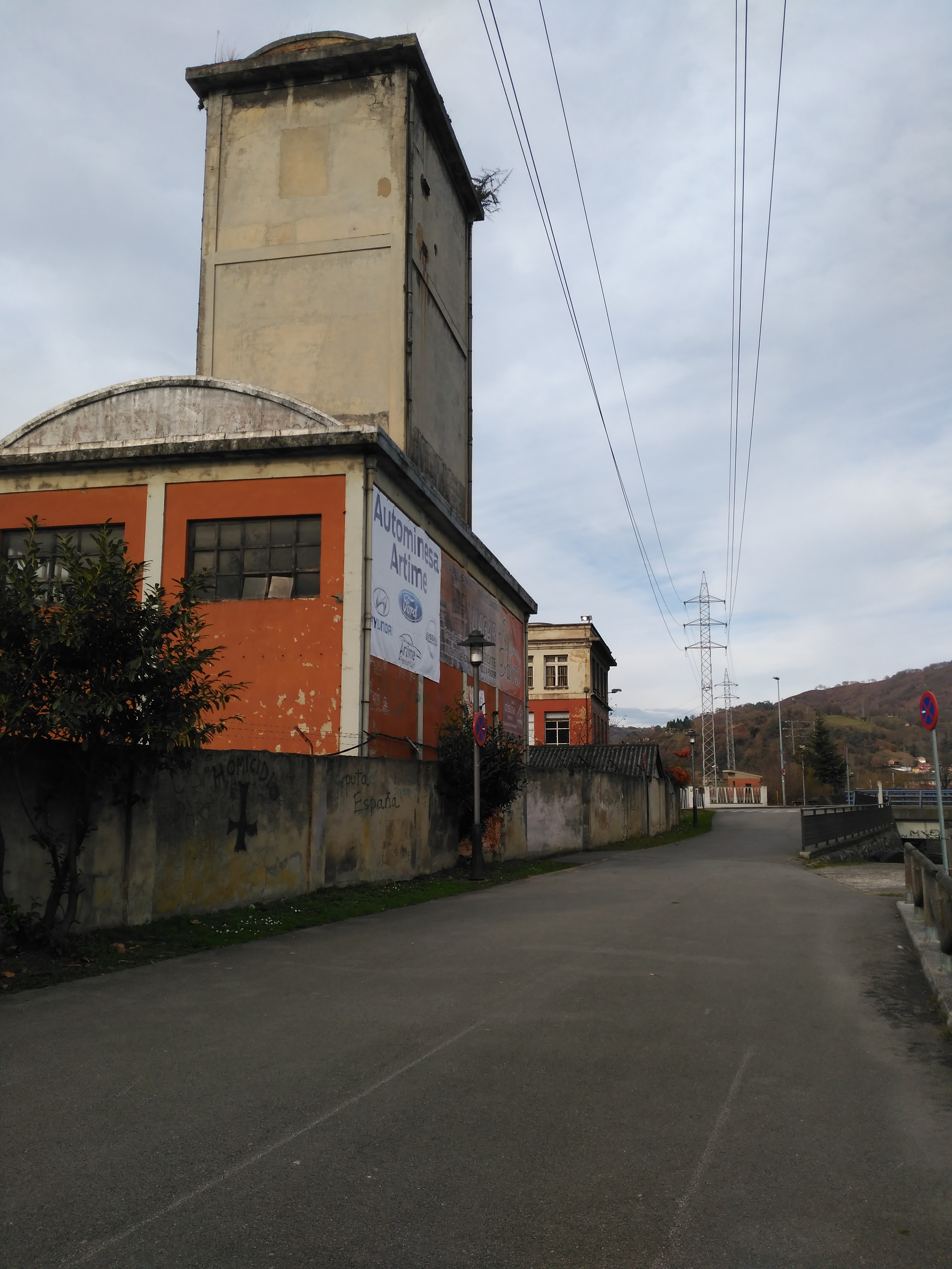 Old building from the Derco factory in Langreo (Spain)